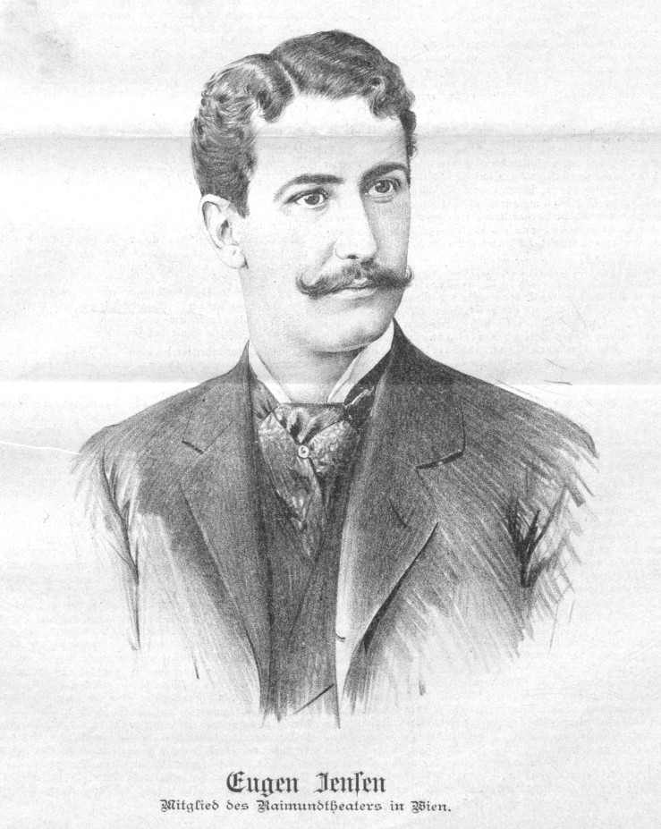 Portrait of Eugen Jensen (1871-1958), Austrian actor.